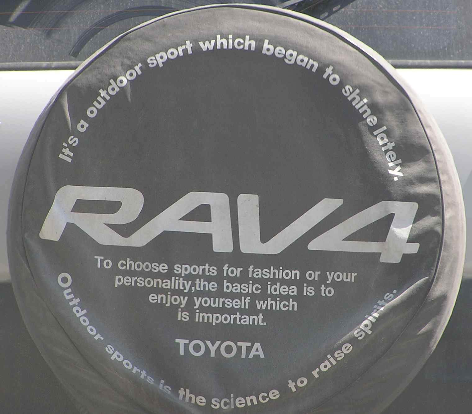 Example of a Toyota with mangled English ("Engrish") on Great Exuma, in the Bahamas. Taken in George Town, Great Exuma, Bahamas.